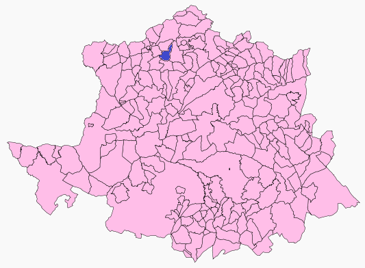 Villanueva de la Sierra